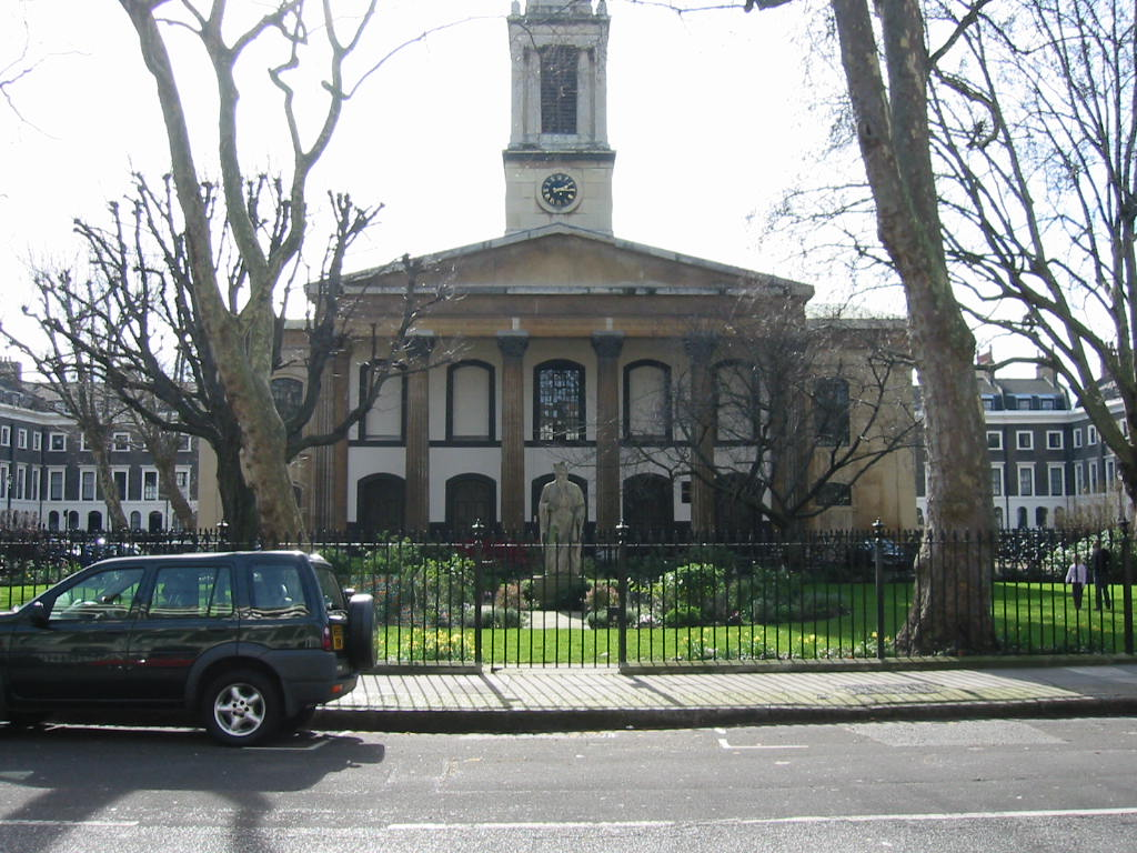 Henry Wood Hall, Trinity Church Square, Bermondsey, London SE1, seen from the north. Formerly Holy Trinity parish church.